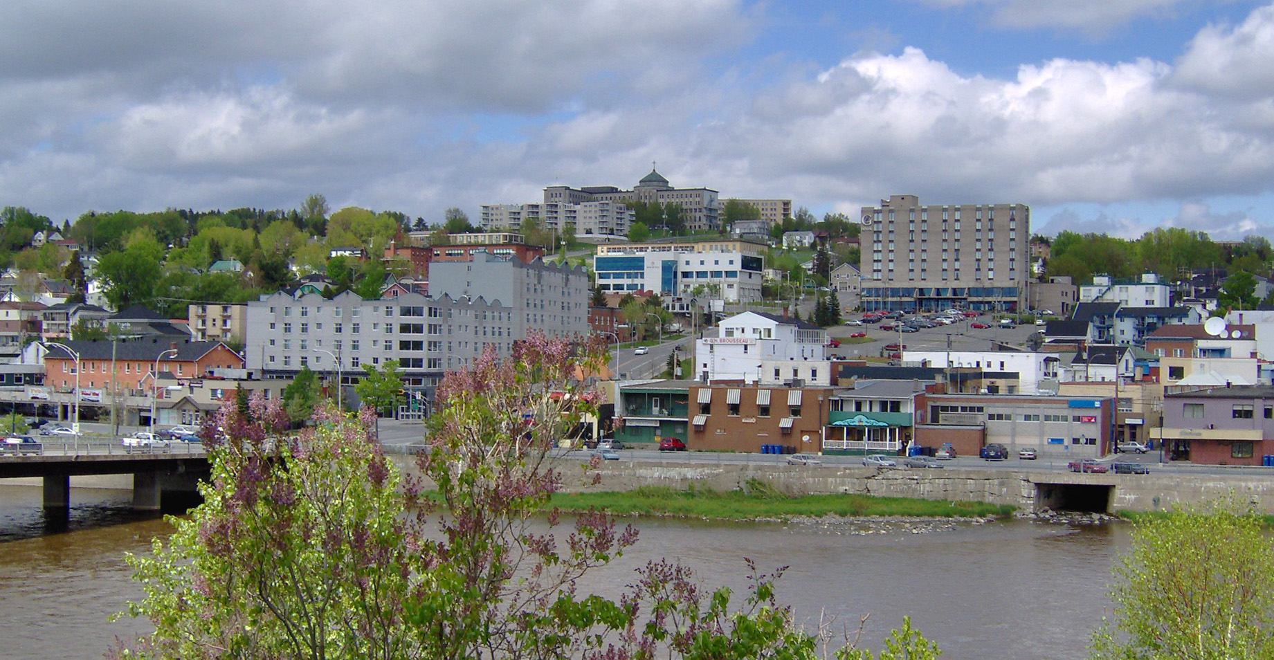 A view of Saint-Georges Est, with the CEGEP at the top of the hill.